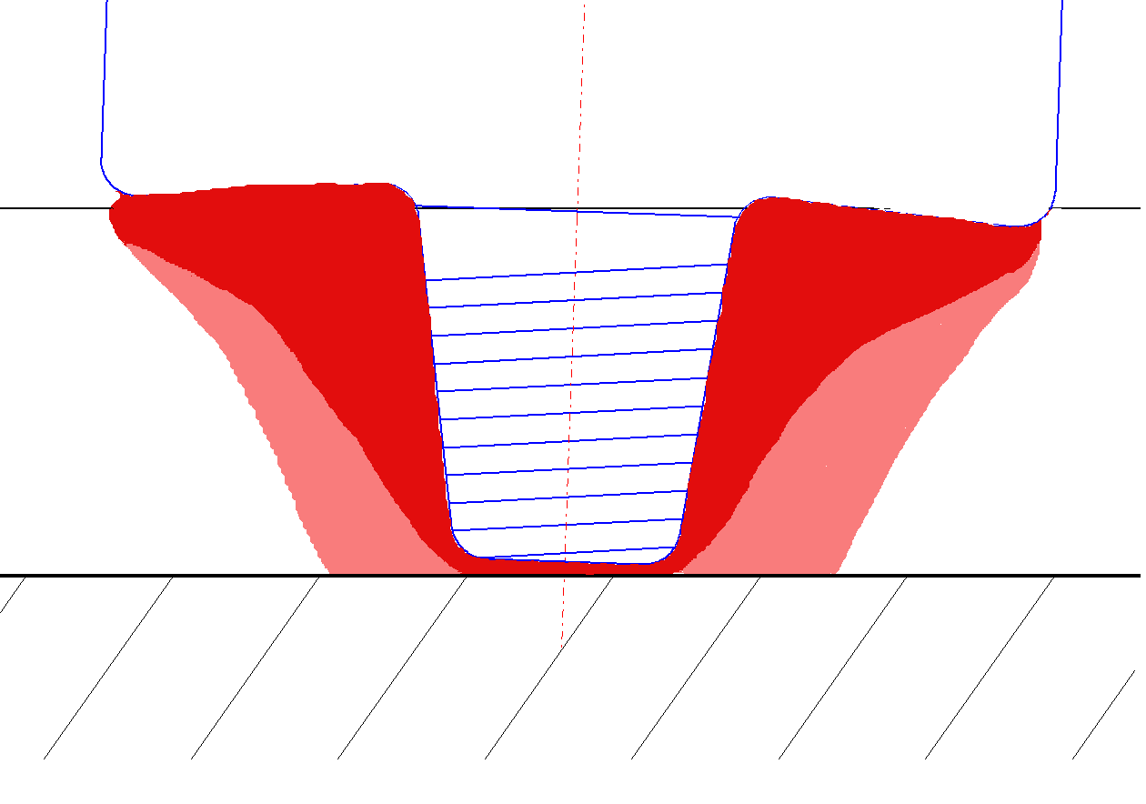 A cross-sectional image friction stir welding (FSW) showing the plunge depth tilt of the tool. The tool is moving to the left.